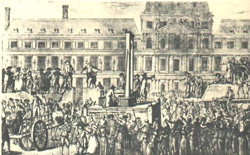 First execution with guillotine at Place du Caroussel